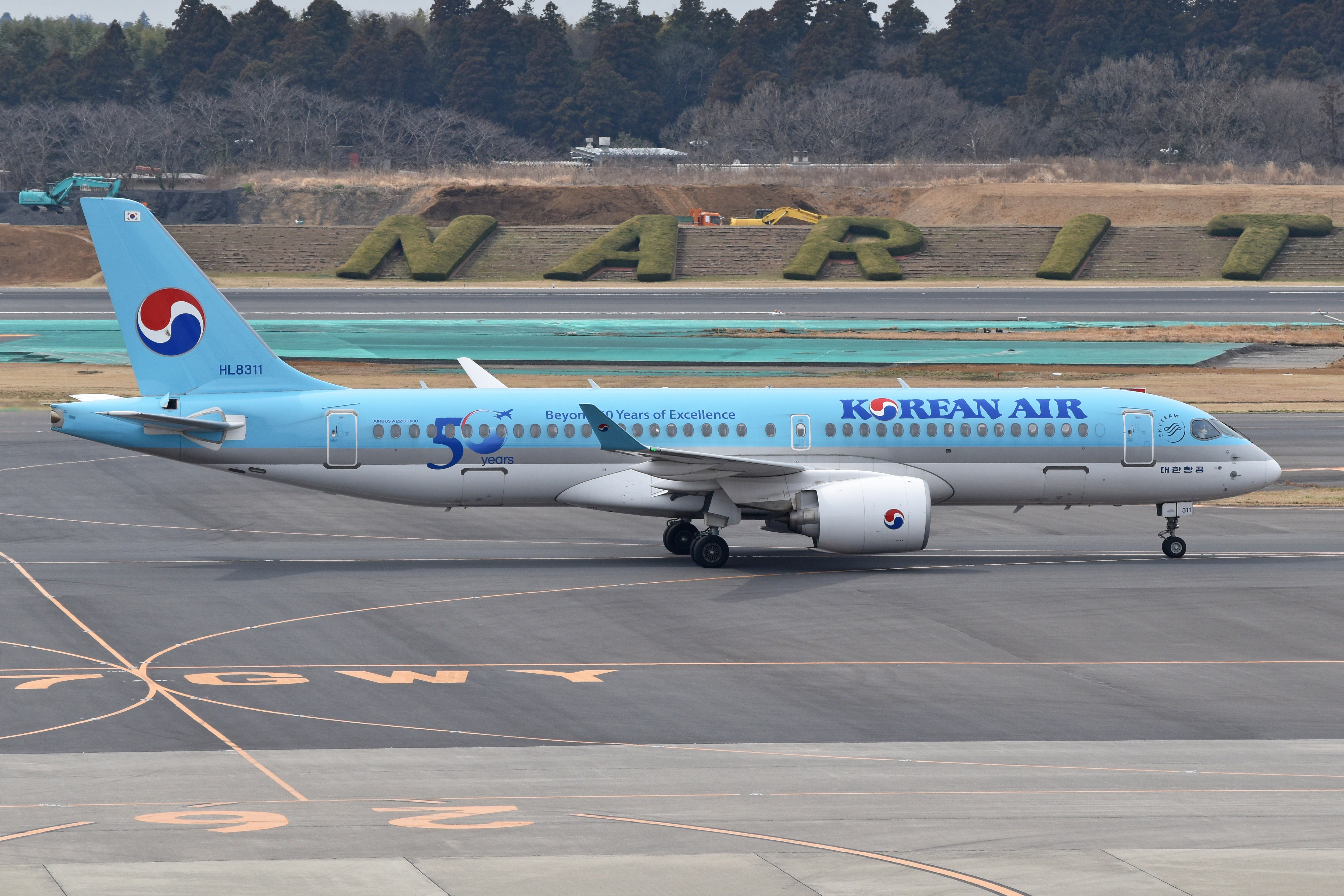 c/n 55026 Built 2018 and delivered on 9th July 2018, the day before the type was officially renamed the Airbus A220. Taxiing in after arriving on flight KE715 / KAL715 from Busan Seen from Terminal 1 viewing terrace. Narita International Airport Tokyo, Japan 16th March 2019